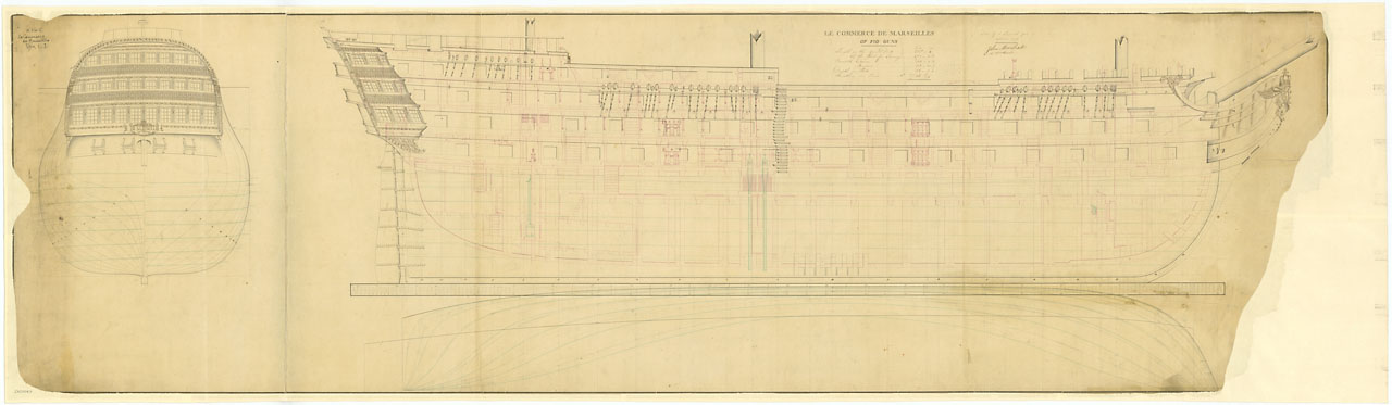 Commerce de Marseille (captured 1793). Plan showing the body plan with sternboard decoration, sheer lines with inboard detail and figurehead, and longitudinal half-breadth for Commerce de Marseilles (captured 1793), a captured French First Rate. The plan illustrates the ship as taken off at Plymouth Dockyard, prior to being fitted as a 120-gun First Rate, three-decker. Signed by John Marshall [Master Shipwright, Plymouth Dockyard, 1795-1802].